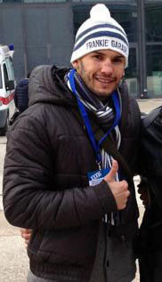 Professional boxer Emanuele Blandamura (left).